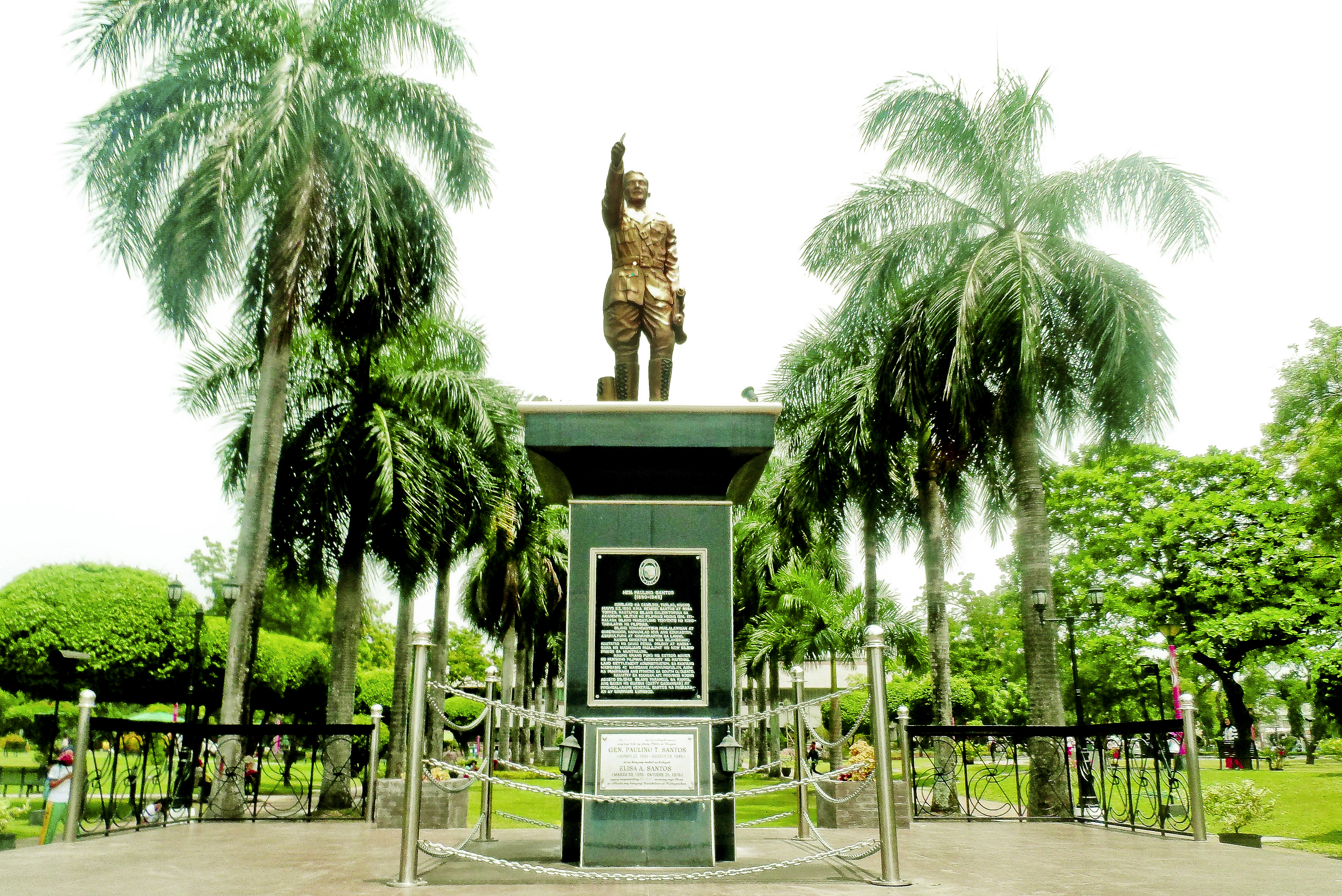 A Monument of Gen. Paulino Santos in General Santos City Plaza